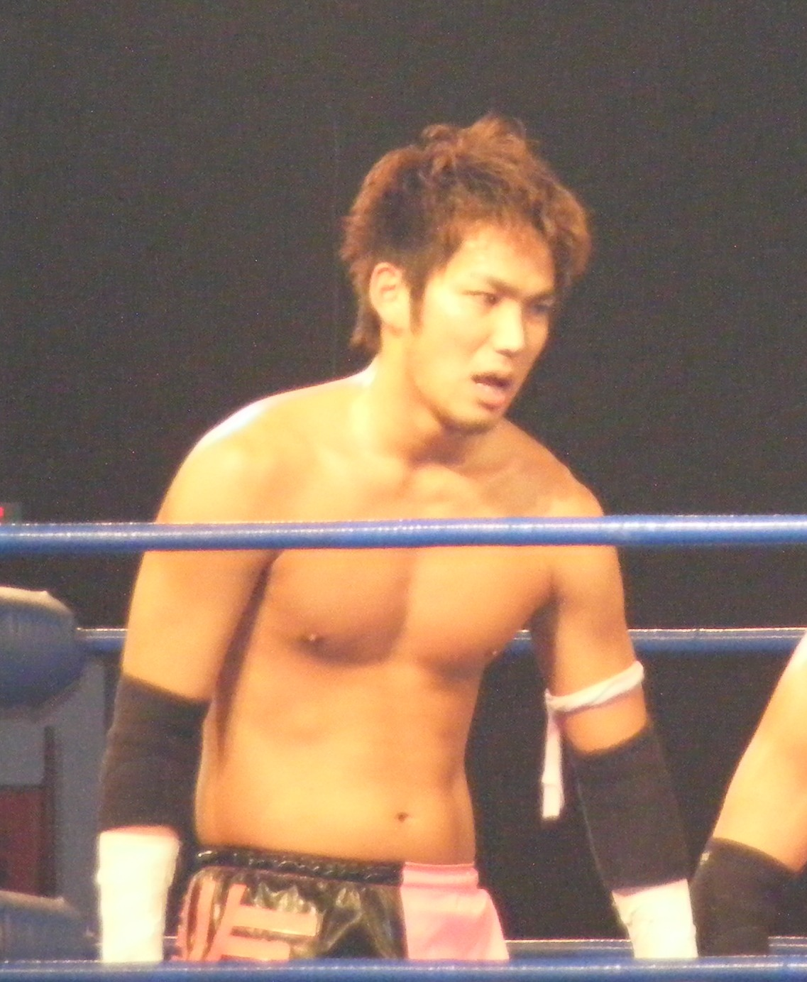 Professional wrestler Atsushi Kotoge at Chikara King of Trios 2011.